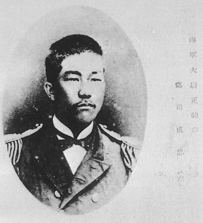 Portrait of Gunji Shigetada (郡司成忠, 1860 – 1924)